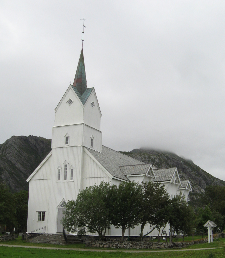 Meløy church. July 22, 2008